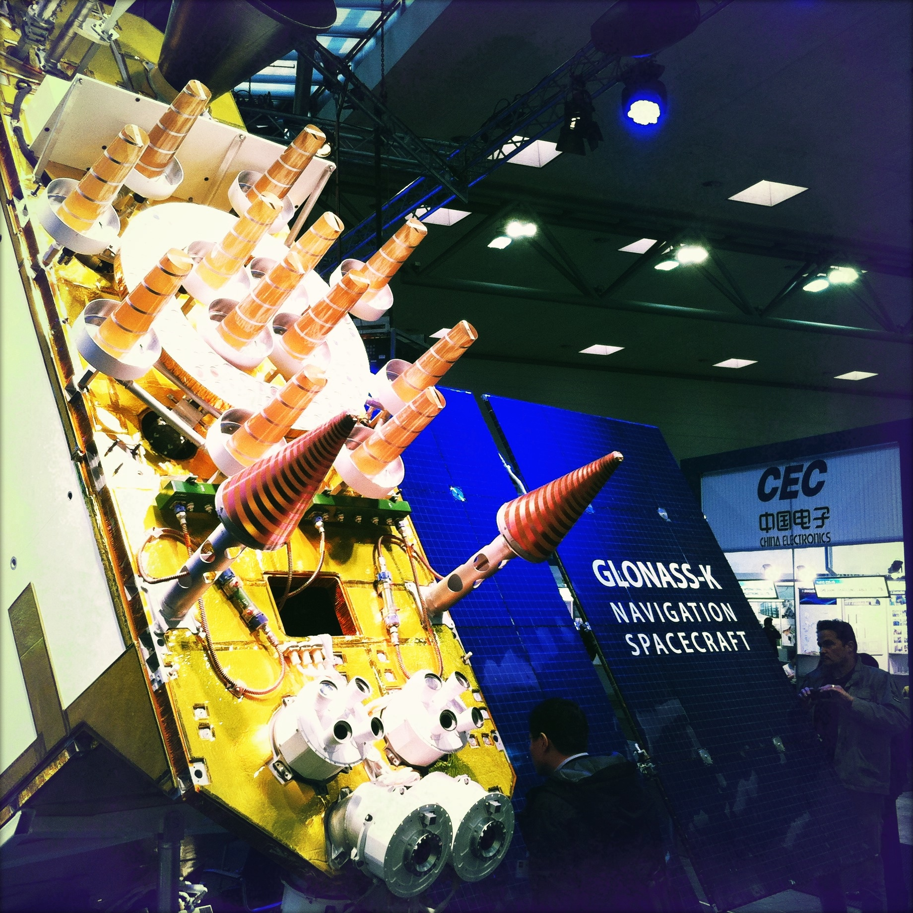 A 1:1 model of the Russian Next-Generation Glonass-K Satellite used for their GPS alternative, as displayed on CeBit 2011.